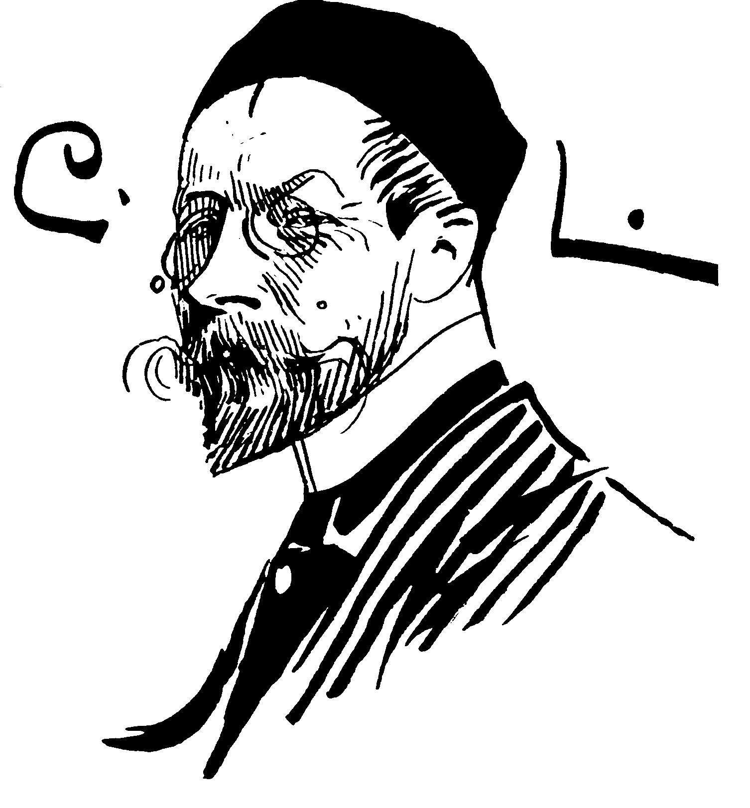 Selfportrait of painter Carl Larsson